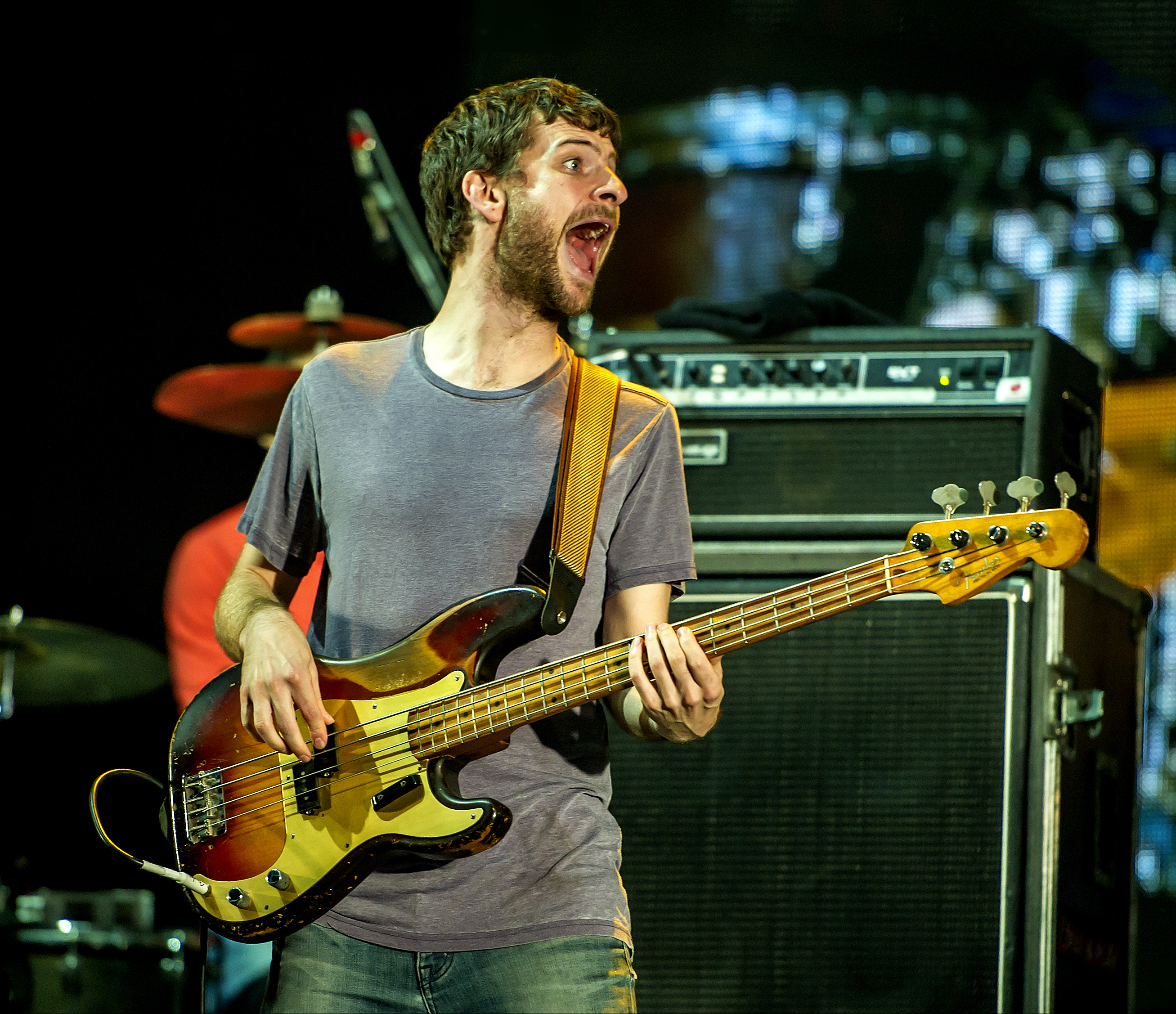 Michael League of Snarky Puppy in Heineken Jazzaldia, Basque Country, Spain.